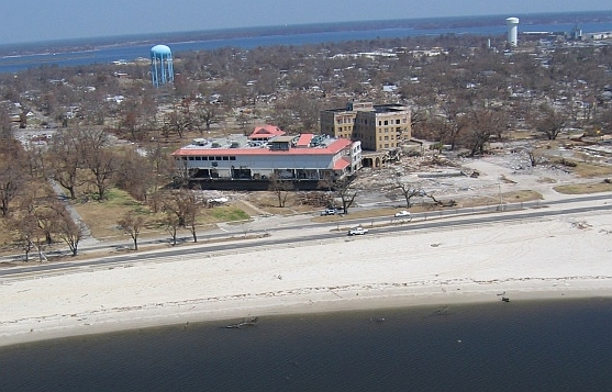 Tivoli Hotel, Biloxi, Harrison County, Mississippi, USA. The hotel was damaged by a casino barge (center left in image) that washed ashore during Hurricane Katrina in August 2005. The hotel was subsequently demolished in 2006.